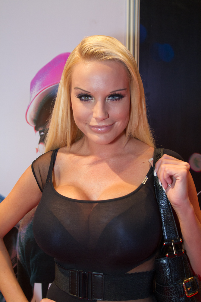 Gina-Lisa Lohfink (Mallorca, 2011)